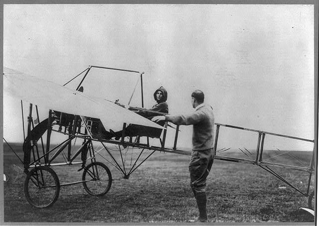 Quimby in the cockpit of her plane